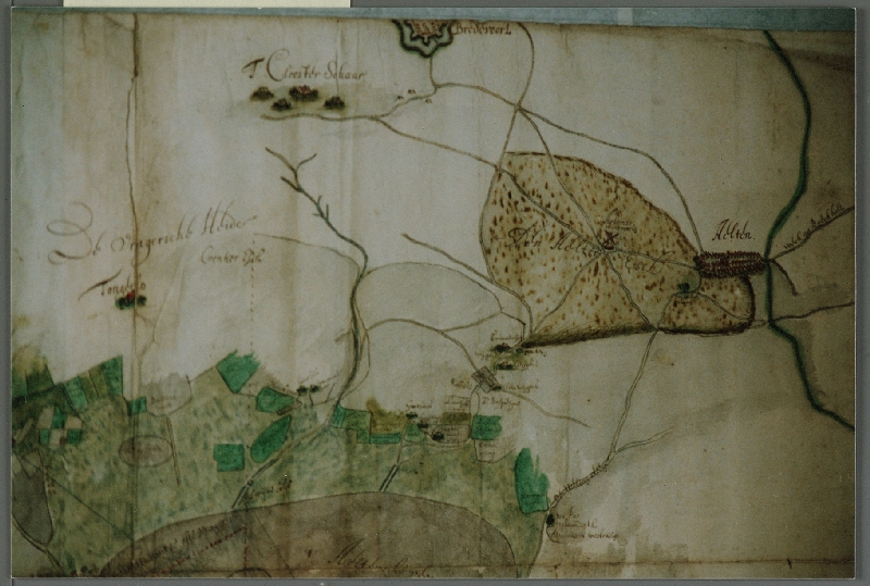 Map with; Bredevoort, Aalten, klooster Schaer, Tongerlo